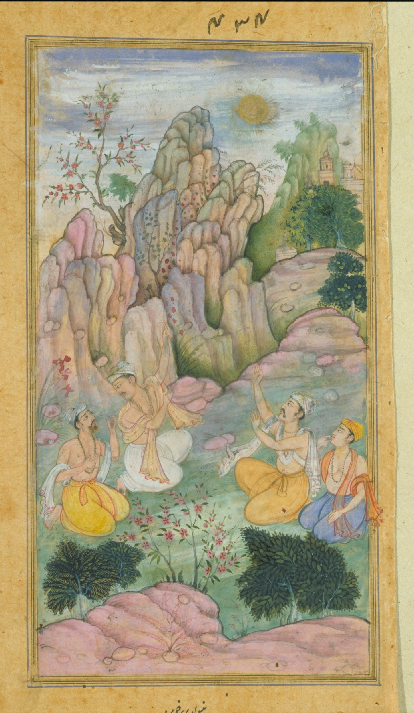 his page is from a manuscript of the Razmnama, or Book of War, copied in the late 16th century at the Mughal court. It was the Persian translation commissioned by the emperor Akbar of the Sanskrit epic text, the Mahabharata. Here, the sage Vyasa accompanied by three disciples in his hermitage, observes his son, Suka, approaching them through the air like a ball of fire.The painting was purchased for the museum from the executors of the late J. C. French with the assistance of the National Art Collections Fund in 1955.